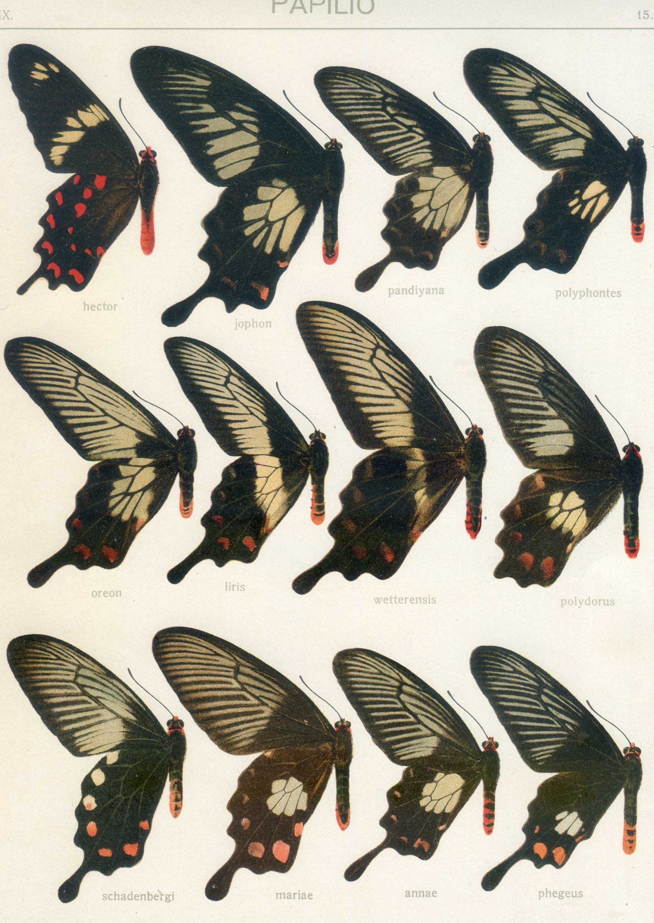 a.1.: Crimson Rose, upperwing; a.2.: Sri Lankan Rose, upperwing; a.3.: Malabar Rose, upperwing b. Papilio oreon Doh. f. oreon Doh. = Atrophaneura oreon (Doherty, 1891), upperwing Papilio liris Godt. f. liris Godt. = Atrophaneura liris liris (Godart, 1819), upperwing Papilio liris Godt. f. wetterensis Rothsch. = Atrophaneura liris wetterensis (Rothschild, 1895), upperwing Papilio polydorus L. f. polydorus L. = Atrophaneura polydorus polydorus (Linnaeus, 1763), upperwing